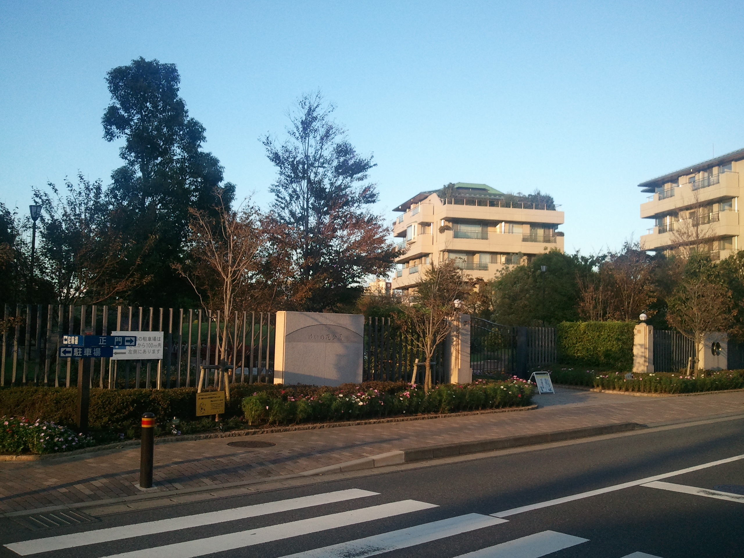 Higashi-Matsudo Yuinohana Park Entrance